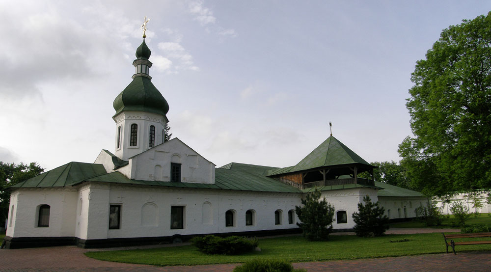 Church of Sts. Peter and Paul with a little palace in the Saviour Monastery, Novgorod-Seversky, Ukraine (late 16th and 17th centuries)